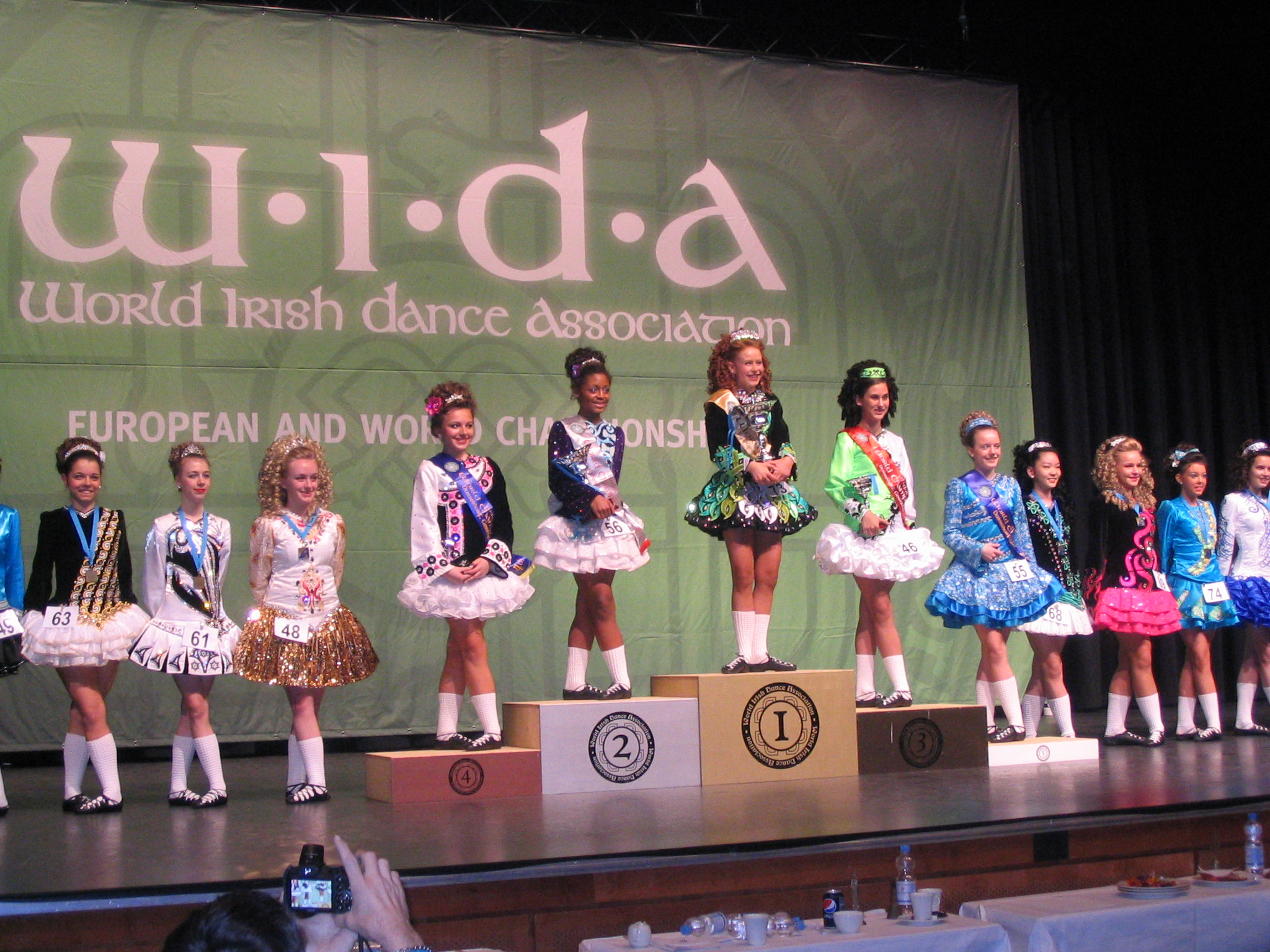 W.I.D.A. World Irish Dance European and World Championships 2013 in Düsseldorf, Germany. Maritim-Hotel.